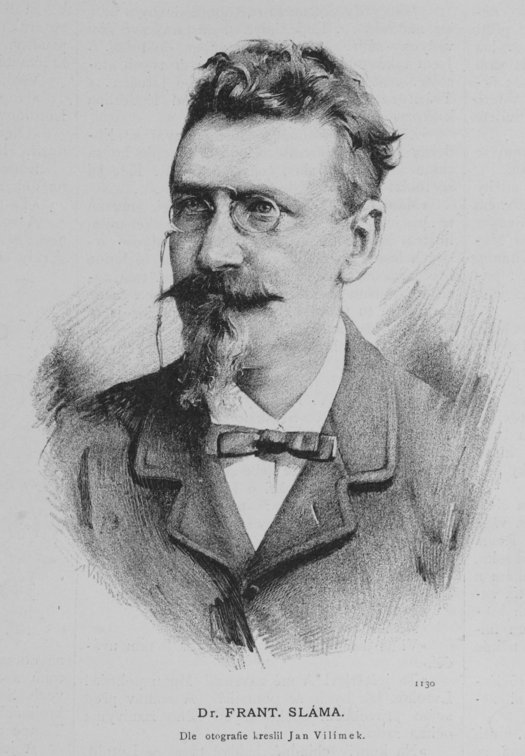 Portrait of František Sláma, Czech writer and journalist in Austrian Silesia.